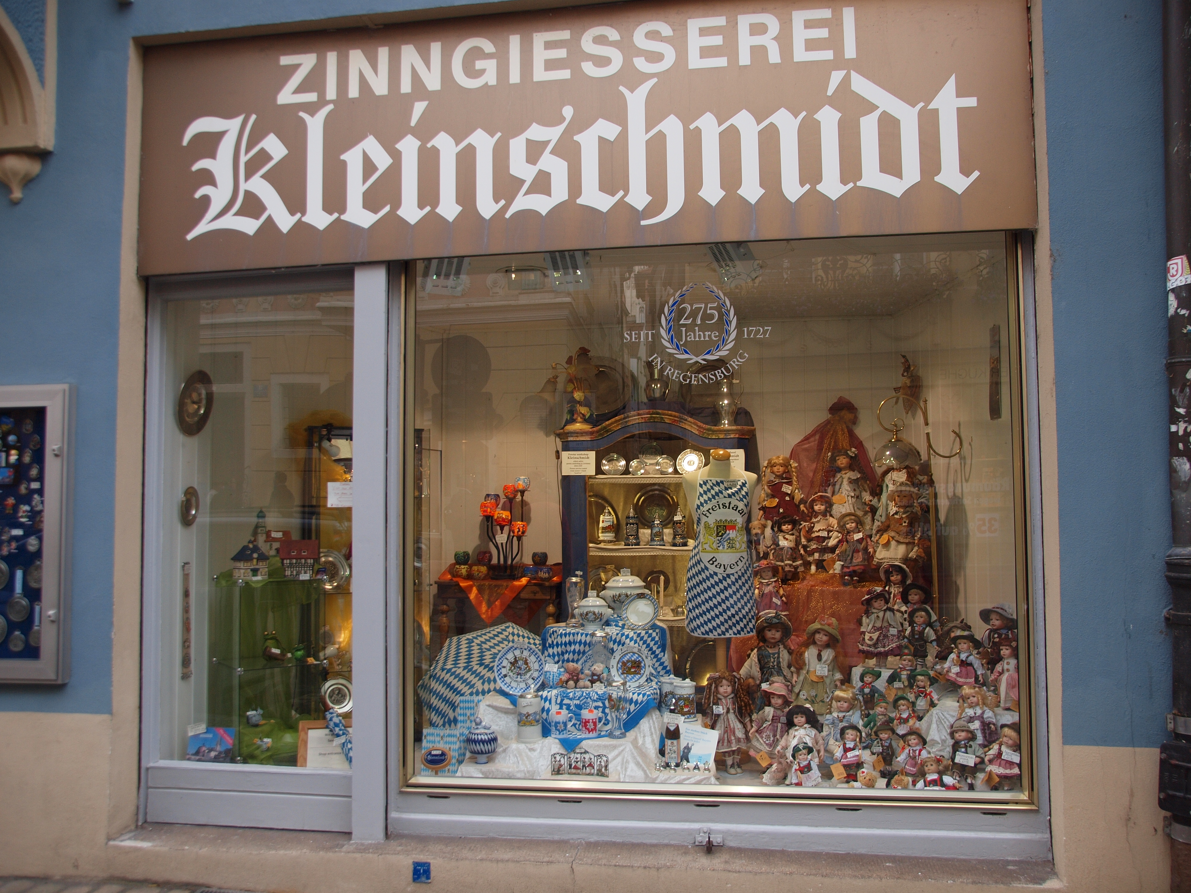 Zinngießerei Kleinschmidt Regensburg